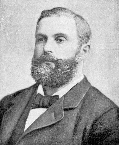 Image of Thomas W. Knox